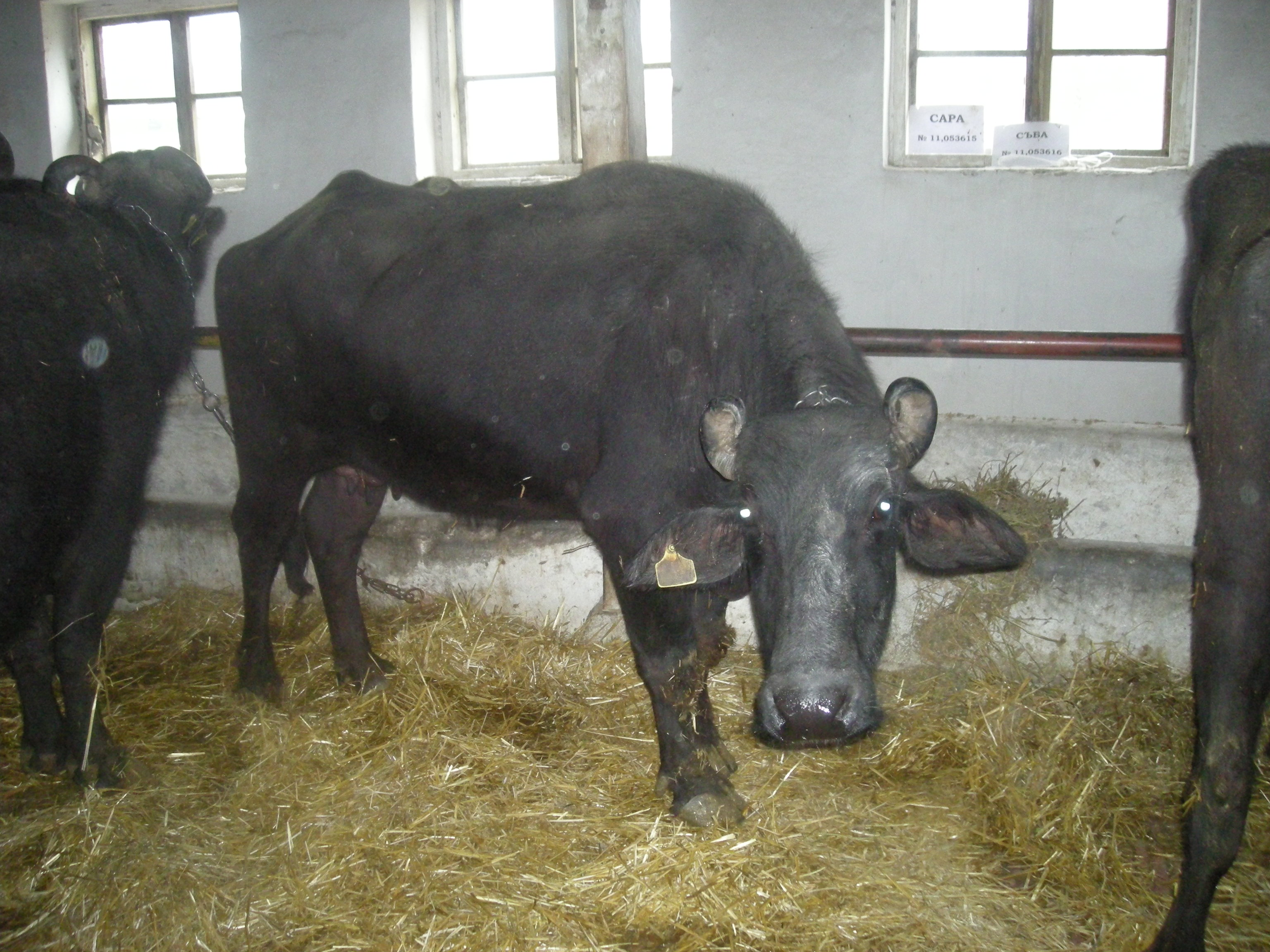 Bulgarian Murrah